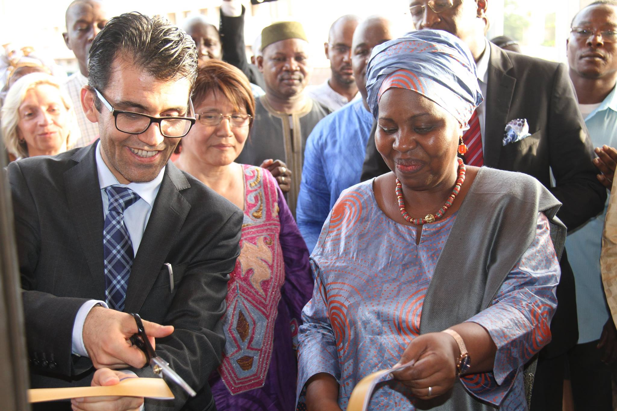 Swiss Umef University : Minister of higher education of Mali